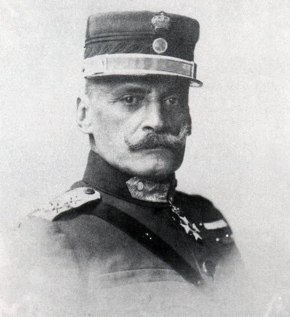 Anastasios Papoulas (Greek: Αναστάσιος Παπούλας, 1859 – March 1935) a Greek general and commander-in-chief during the Greco-Turkish War of 1919-1922.